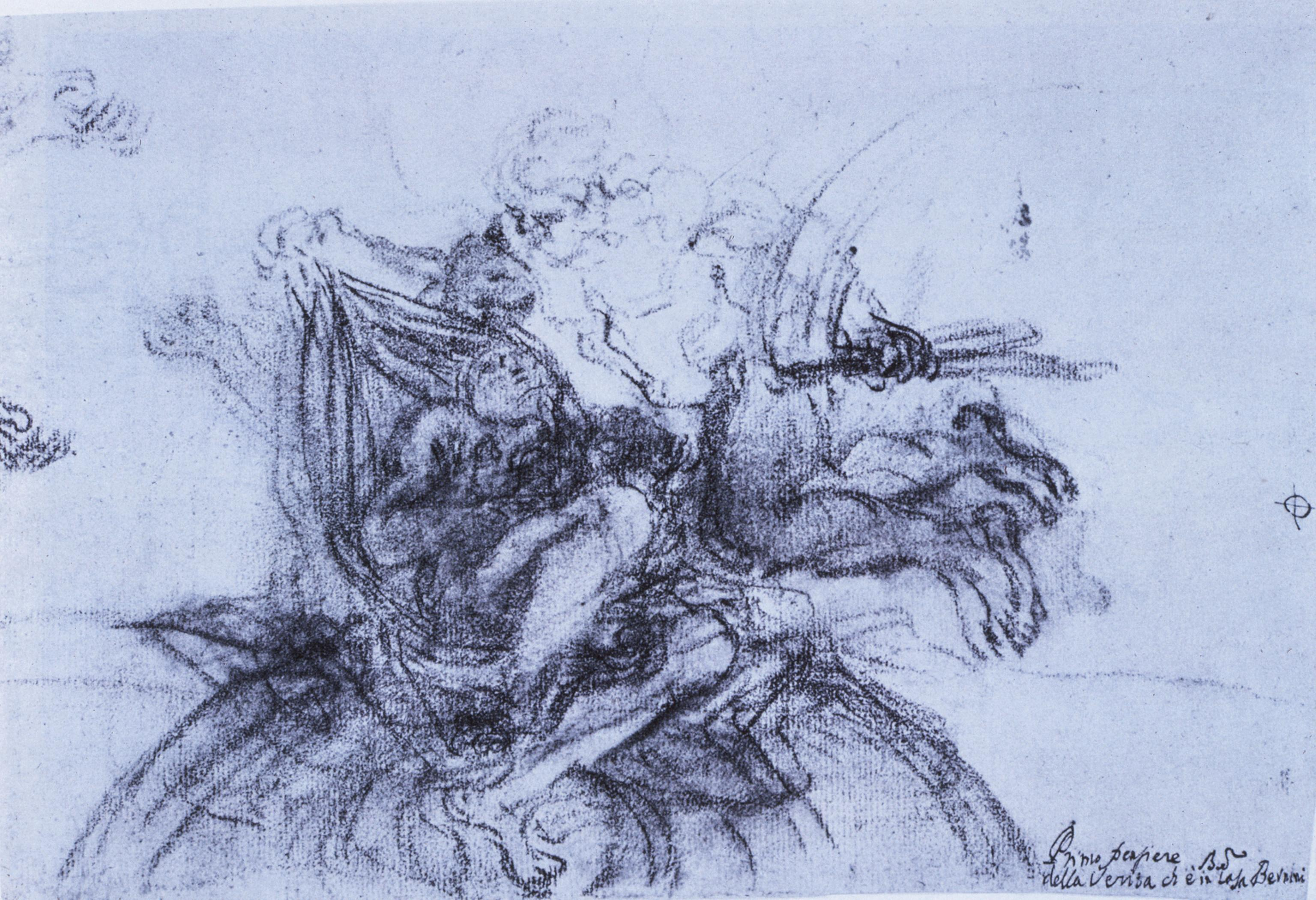 Truth unveiled by time, chalk on paper, 250 x 372 mm, Drawing--Italy--A.D